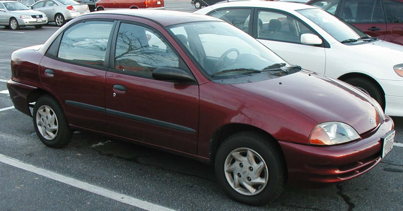 1998-2002 Chevrolet Metro LSi sedan photographed in USA.